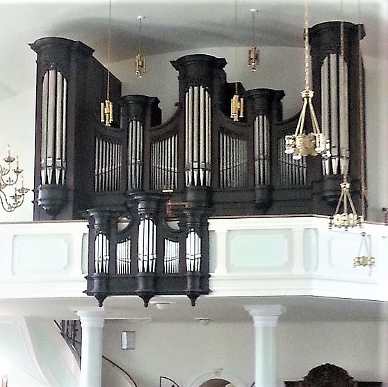 Interior of Allerheiligenkirche (Wadern)